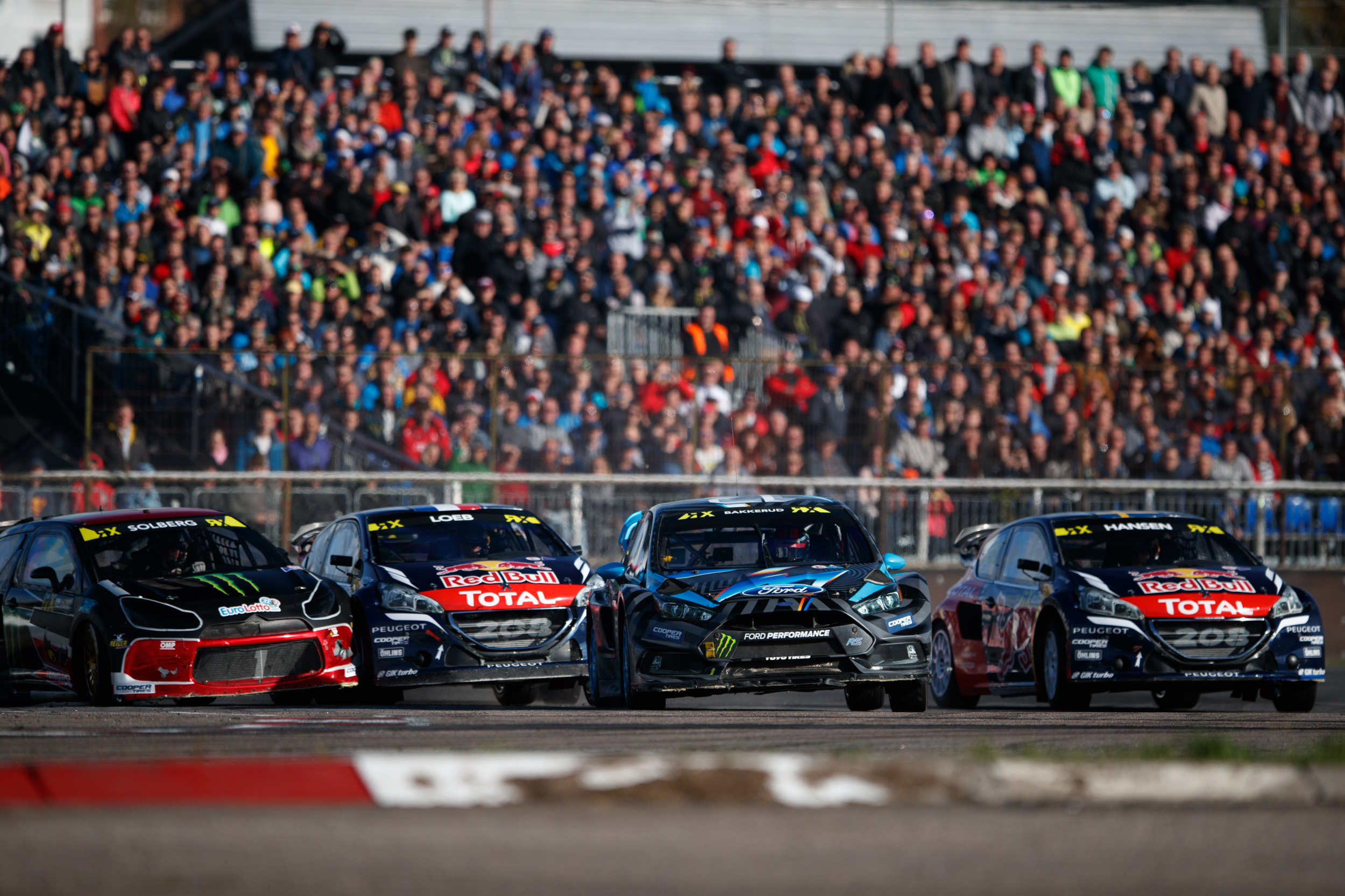 Round 10 of the 2016 FIA World Rallycross Championship Biķernieku Kompleksā Sporta Bāze, Riga, Lativa.